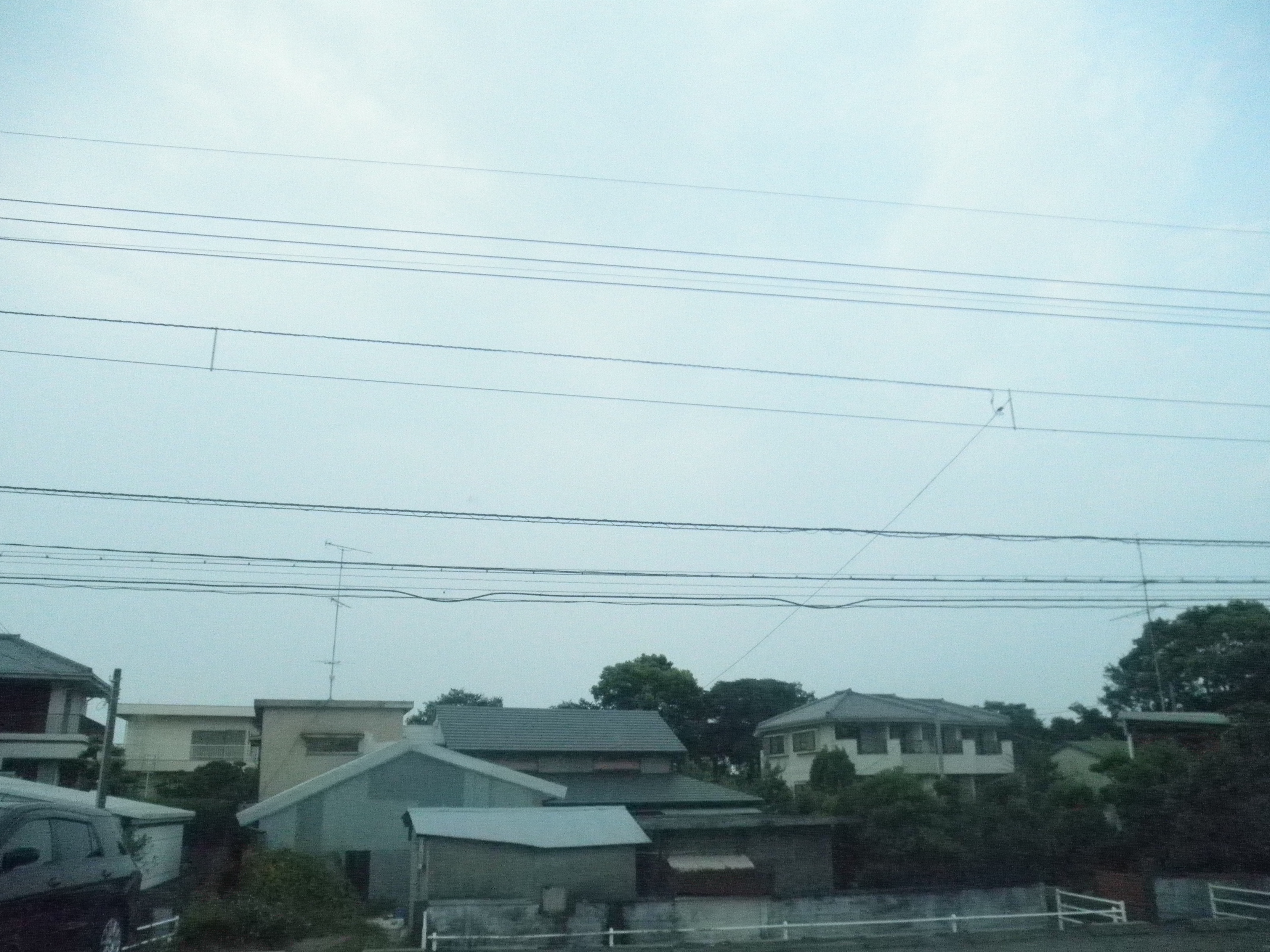 Yokosutown Komatsushimacity Tokushimapref